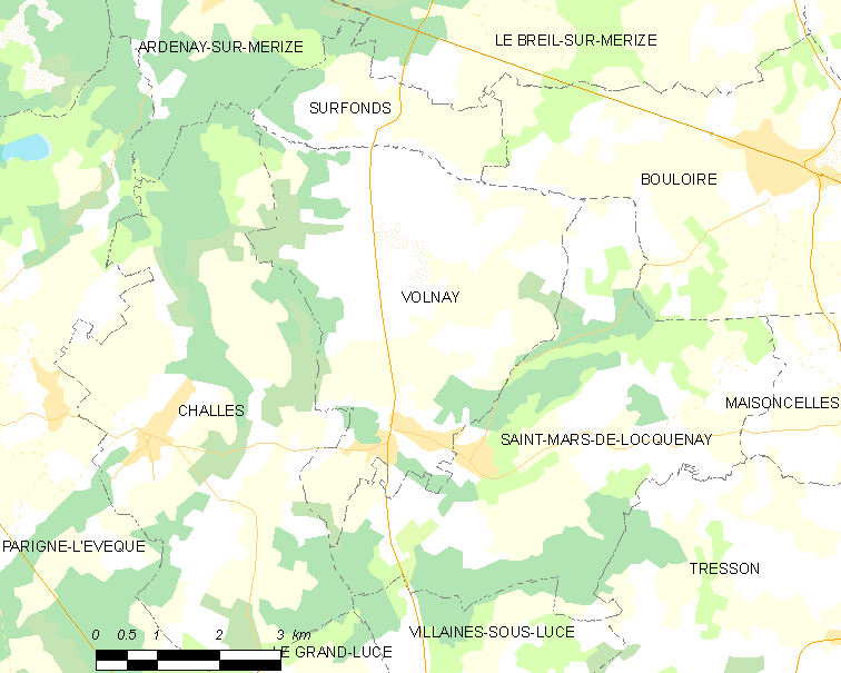 Map of French municipality